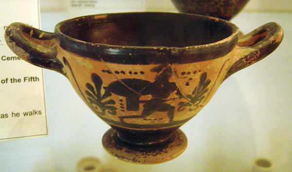 Attic skyphos in black figure depicting hoplite soldier looking back as he walks. Circa 490-480 BC; excavated at Contrada Pezzino cemetery, Agrigento, Sicily.